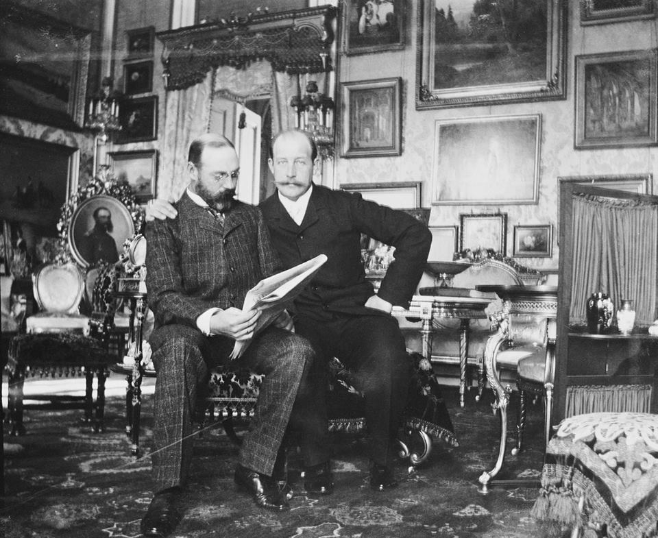 Princes Valdemar and George (Goggy) of Denmark and Greece. They were each other's uncle and nephew - both were top officers in the Danish navy.